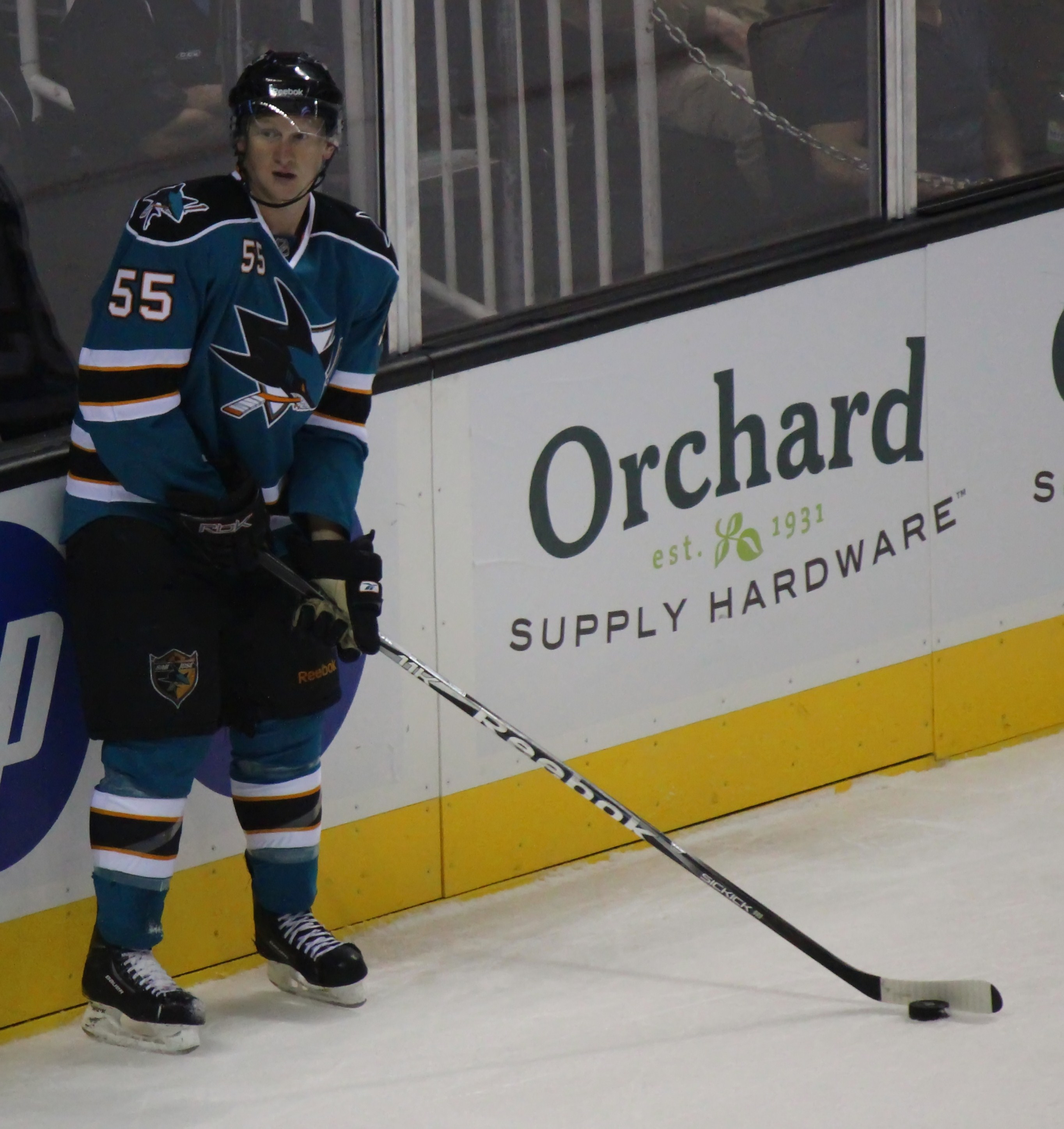 Photo of Mike Moore